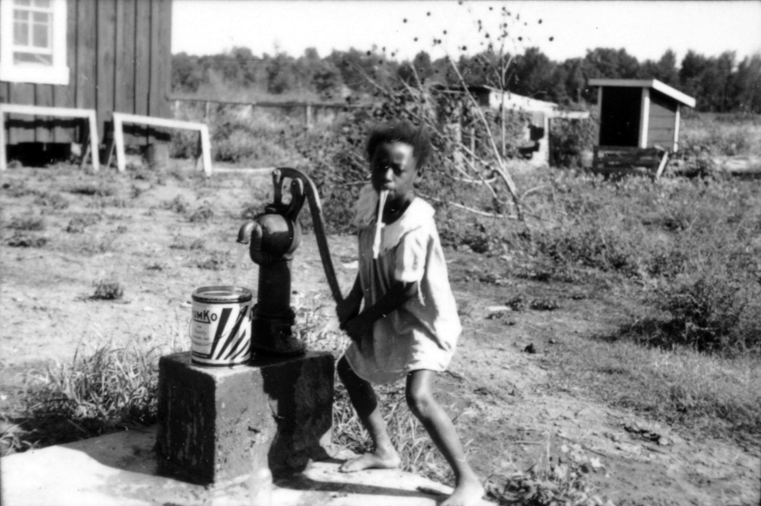 Title: A young Black girl operates a water pump at Delta Cooperative with balloon in her mouth Date: 1937 Photographer: Louise Boyle Photo ID: 5859pb2f30fc800g Collection: Louise Boyle. Southern Tenant Farmers Union Photographs, 1937 and 1982 Repository: The Kheel Center for Labor-Management Documentation and Archives in the ILR School at Cornell University is the Catherwood Library unit that collects, preserves, and makes accessible special collections documenting the history of the workplace and labor relations. Notes: Copyright: The copyright status of this image is unknown. It may also be subject to third party rights of privacy or publicity. Images are being made available for purposes of private study, scholarship, and research. The Kheel Center would like to learn more about this image and hear from any copyright owners who are not properly identified so that we may make the necessary corrections. Tags: Kheel Center for Labor-Management Documentation and Archives,Cornell University Library,African Americans, Children, Living Conditions